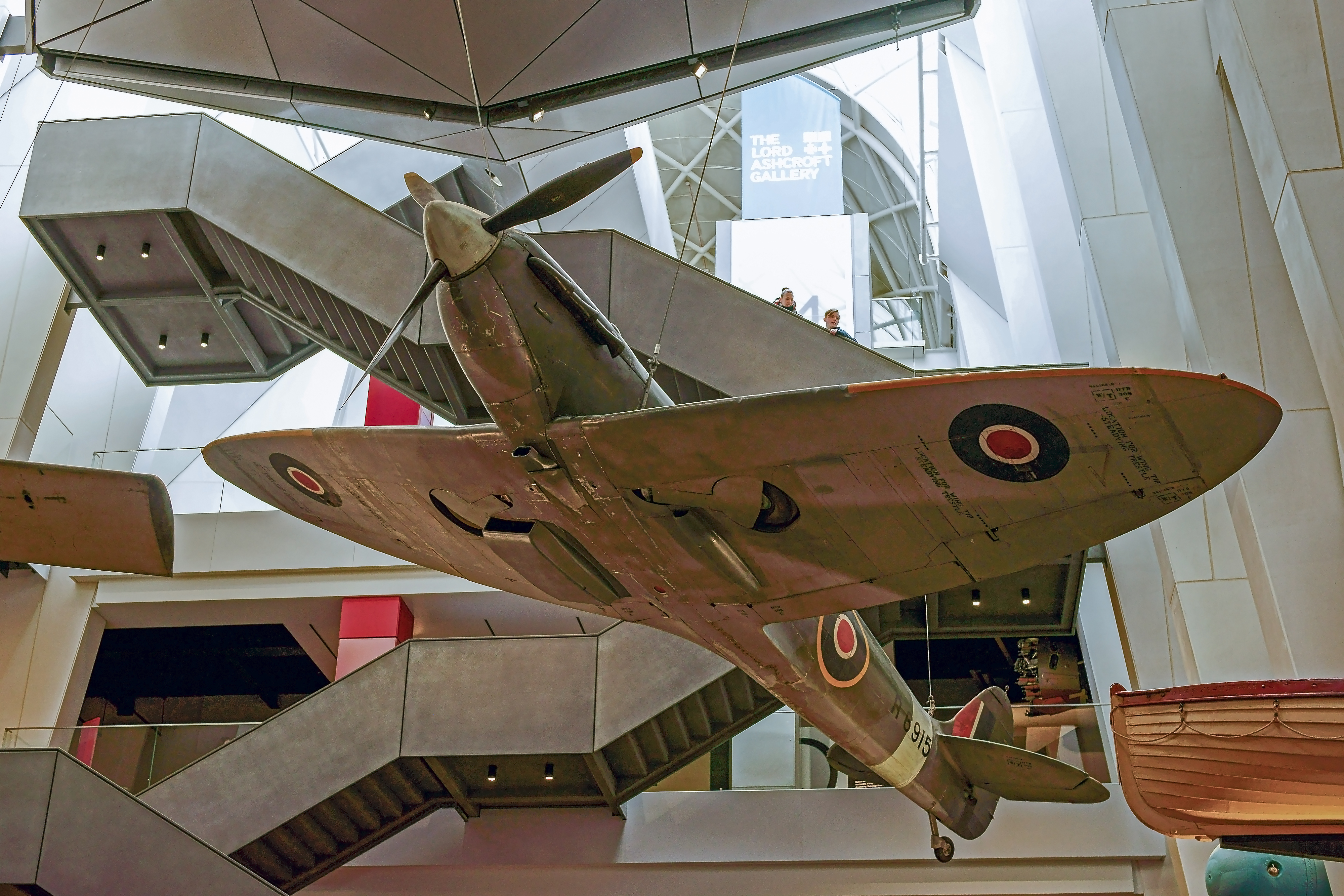 Imperial War Museum